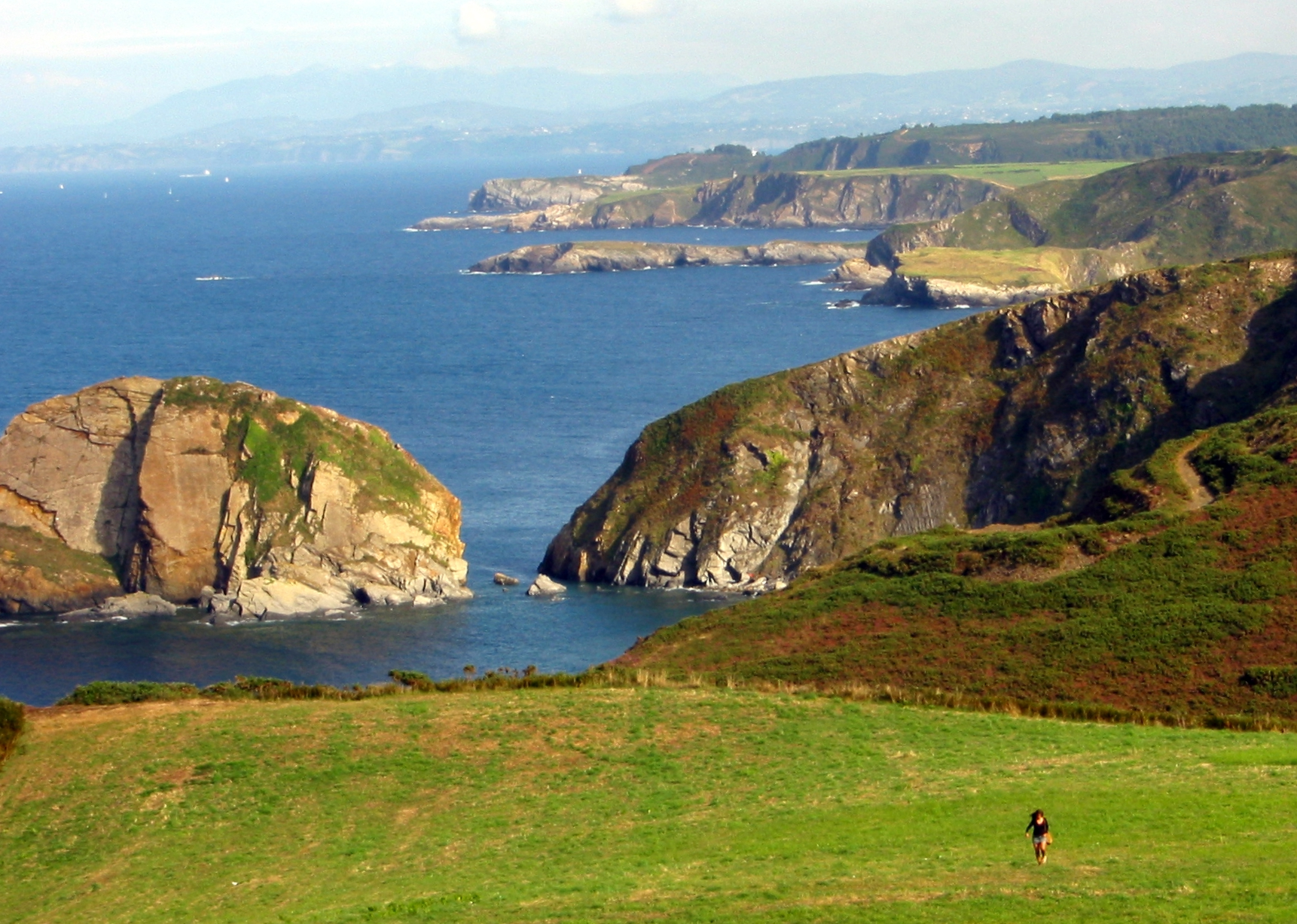 View of Cabo de Peñas in Gozón (Asturias, Spain).